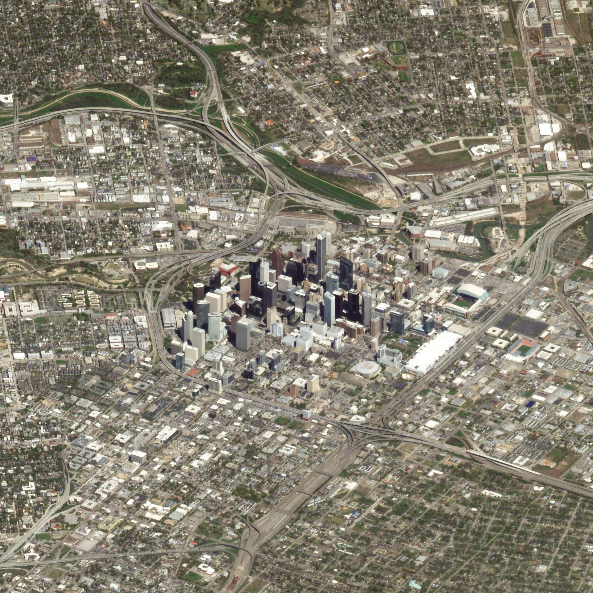 SkySat satellite image of Houston, Texas